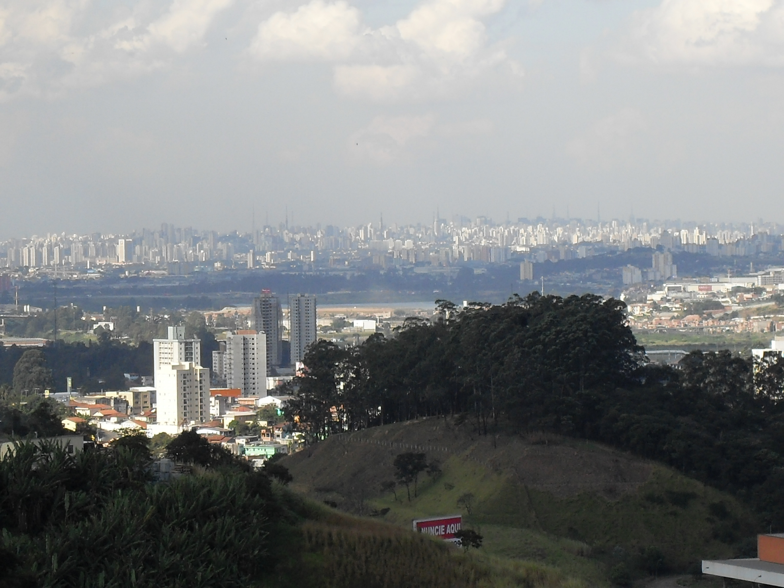 View from Barueri